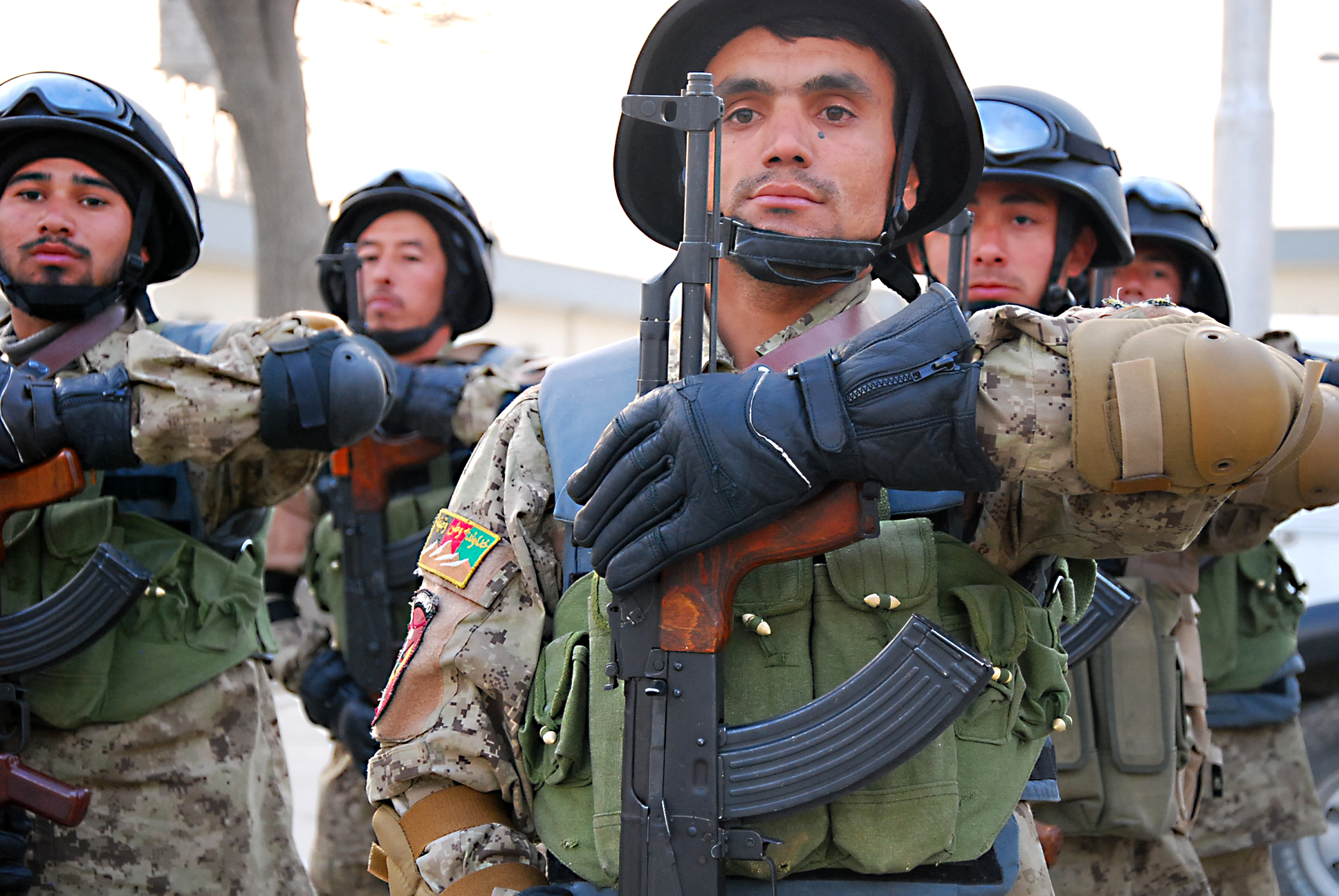 Police officers stand in formation as U.S. Army Gen. David Petraeus, commander of NATO’s International Security Assistance Force, visits Afghan National Civil Order Police headquarters in Kabul, Afghanistan, Dec. 14, 2010.